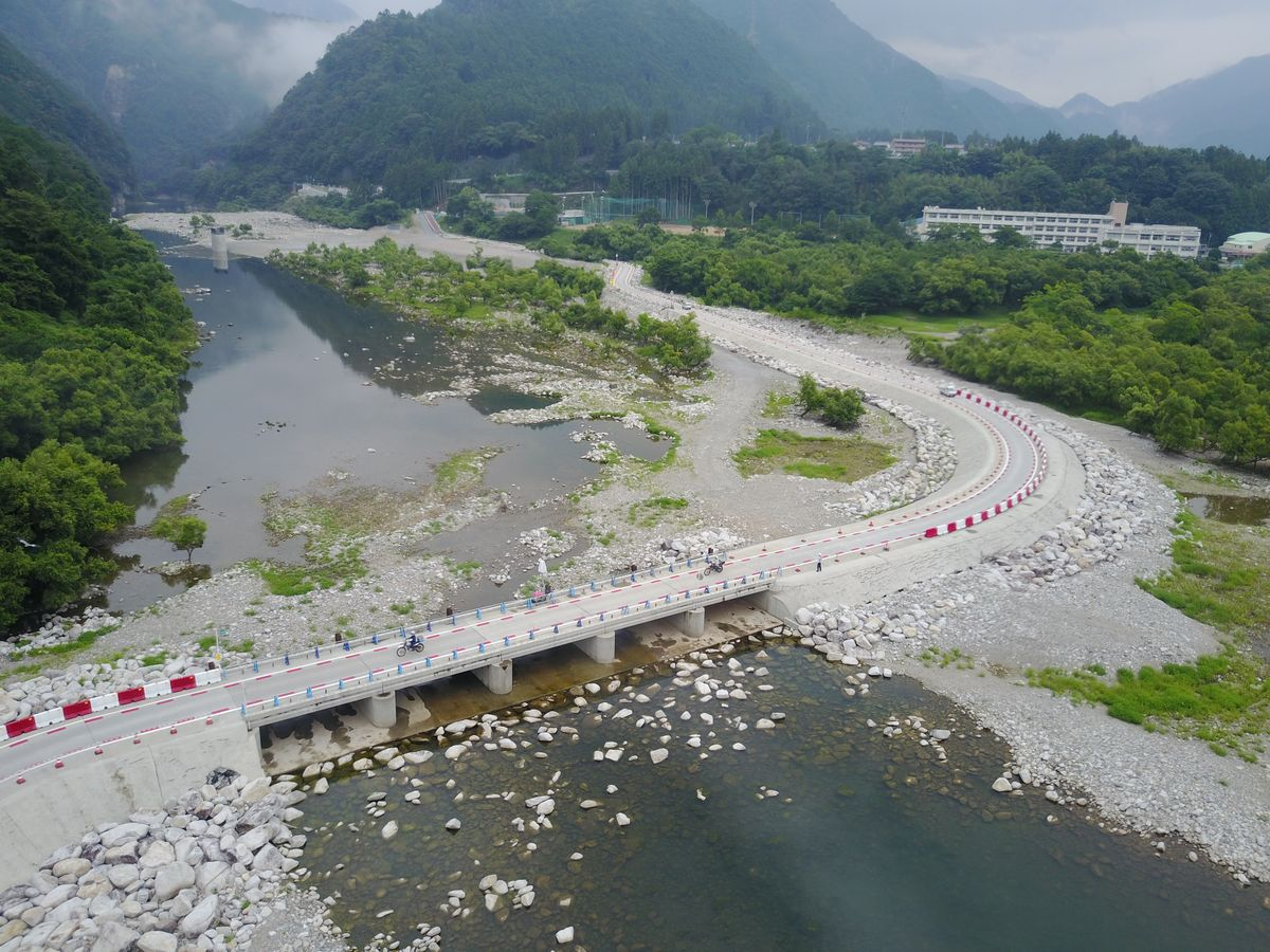 The temporary road of Harada-Bashi brigde.(Shizuoka-pref., Japan)